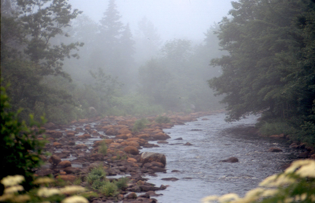 View of the river in Petite Riviere, Nova Scotia, Canada